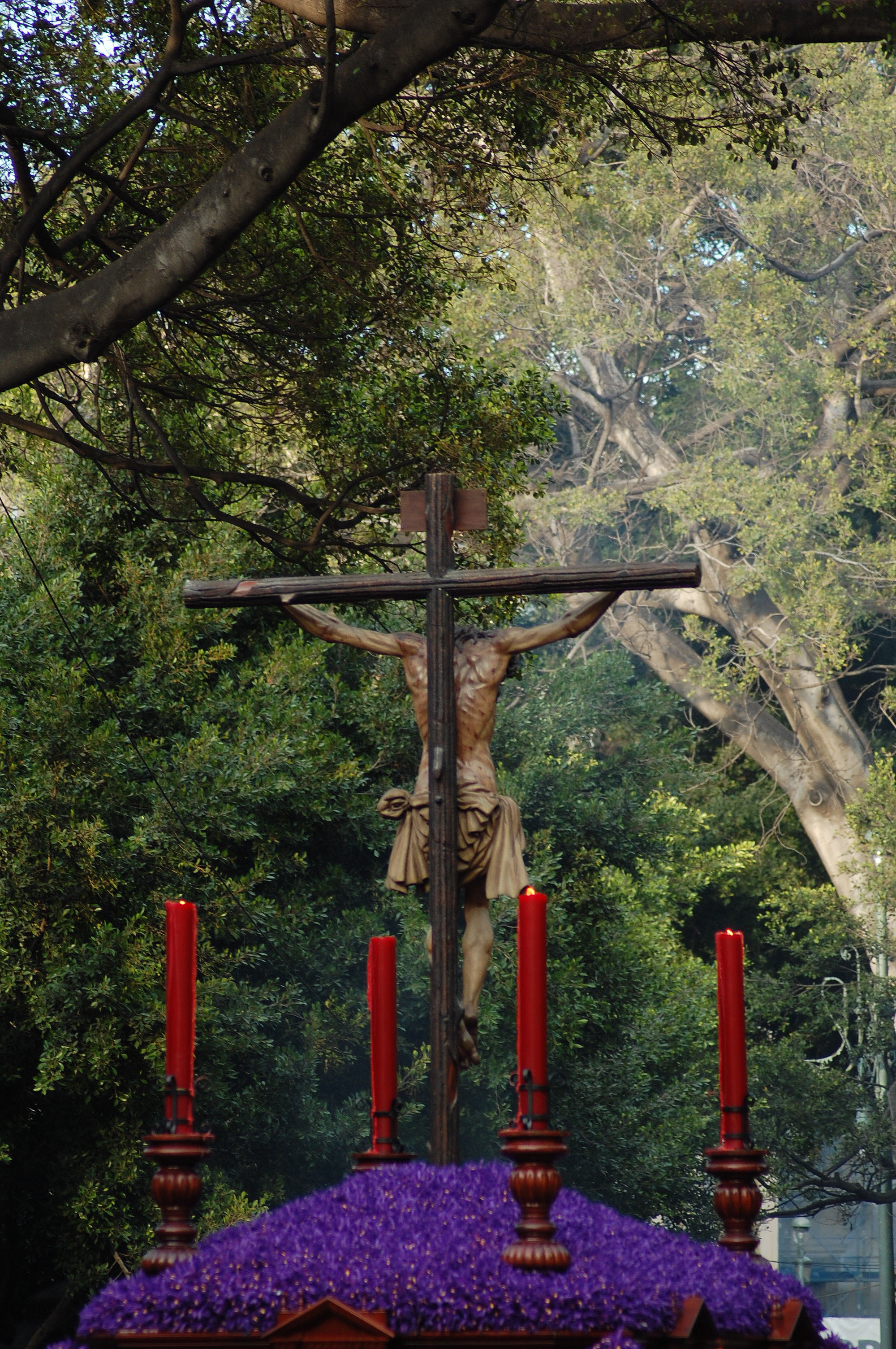 Holy Week in Málaga, Spain.